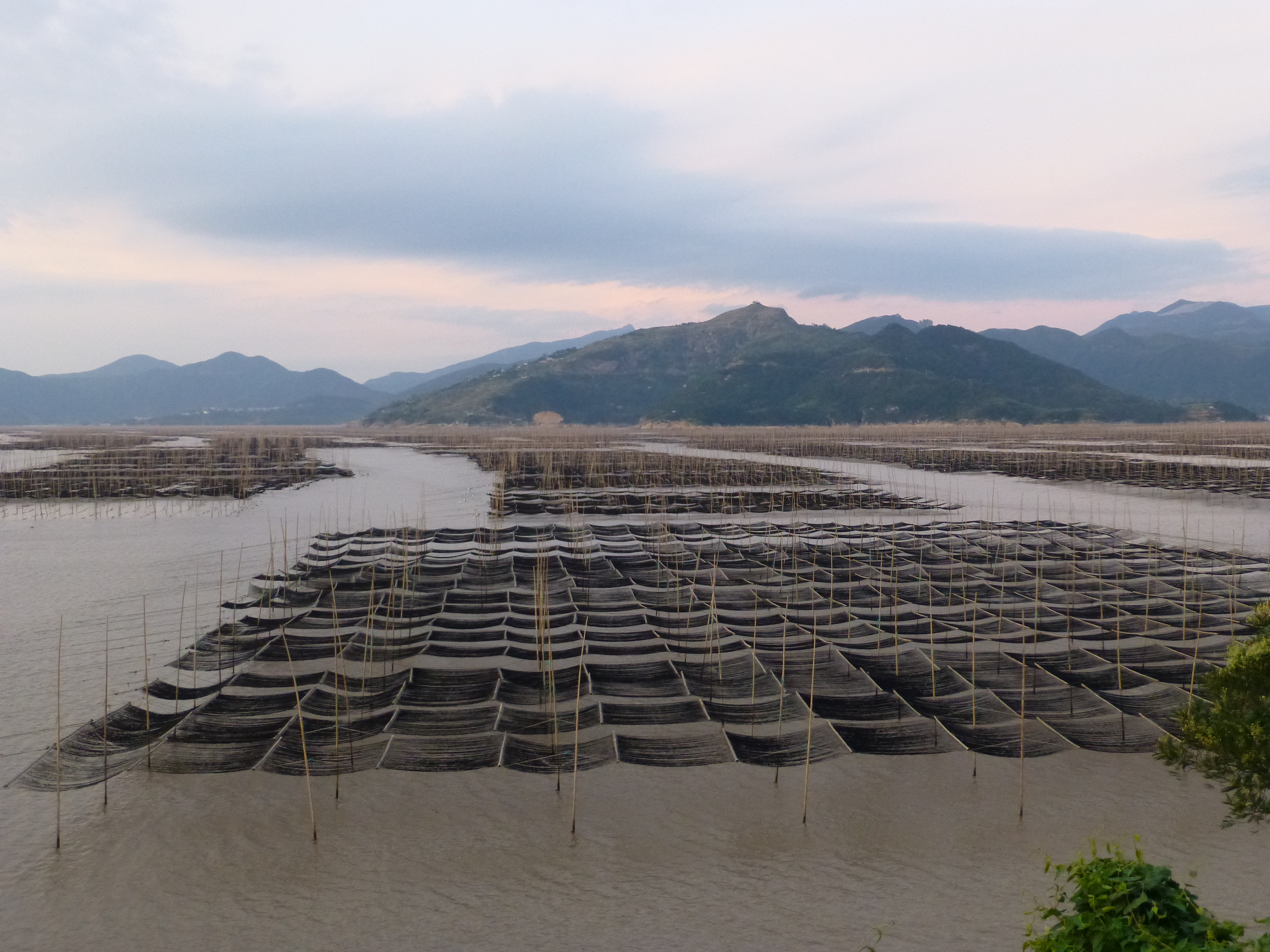 On the coast of Dayu Bay, between Xiaoyu Village and Da'ao Village, in Cangnan County, Zhejiang, China.